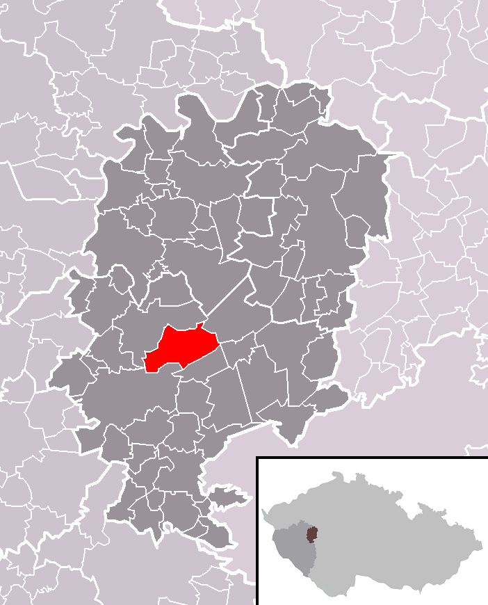 Location of Volduchy municipality within Rokycany District and within identical administrative area of Rokycany as a Municipality with Extended Competence.